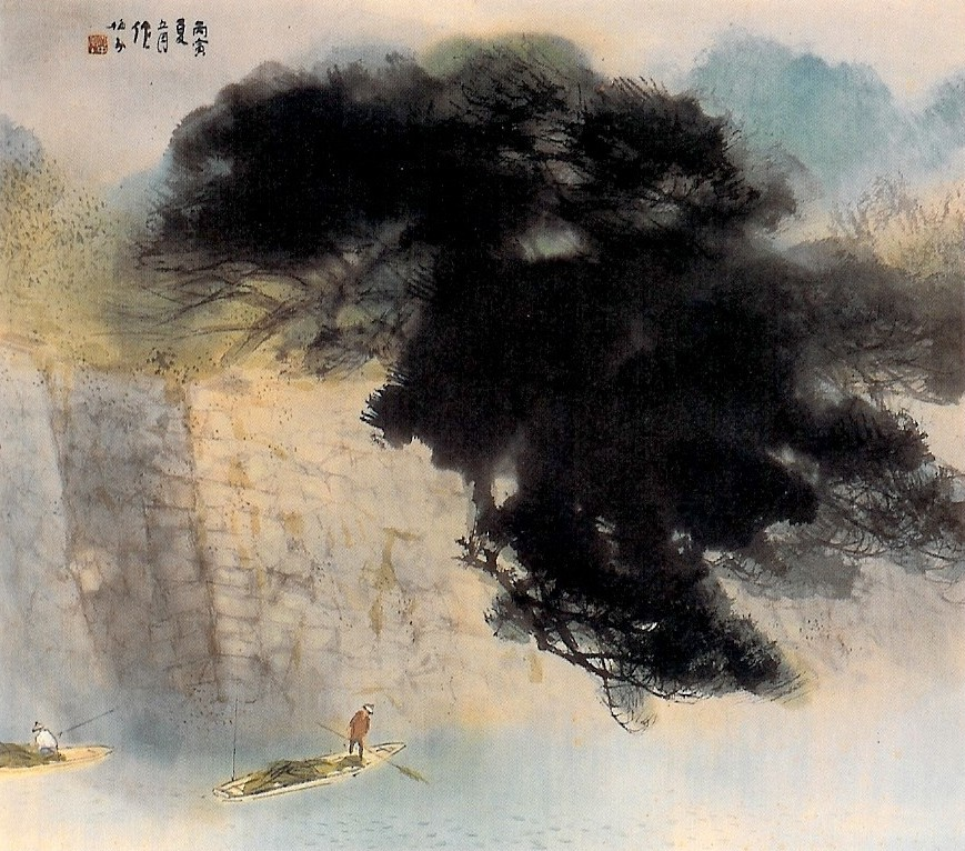 Green Pines Castle